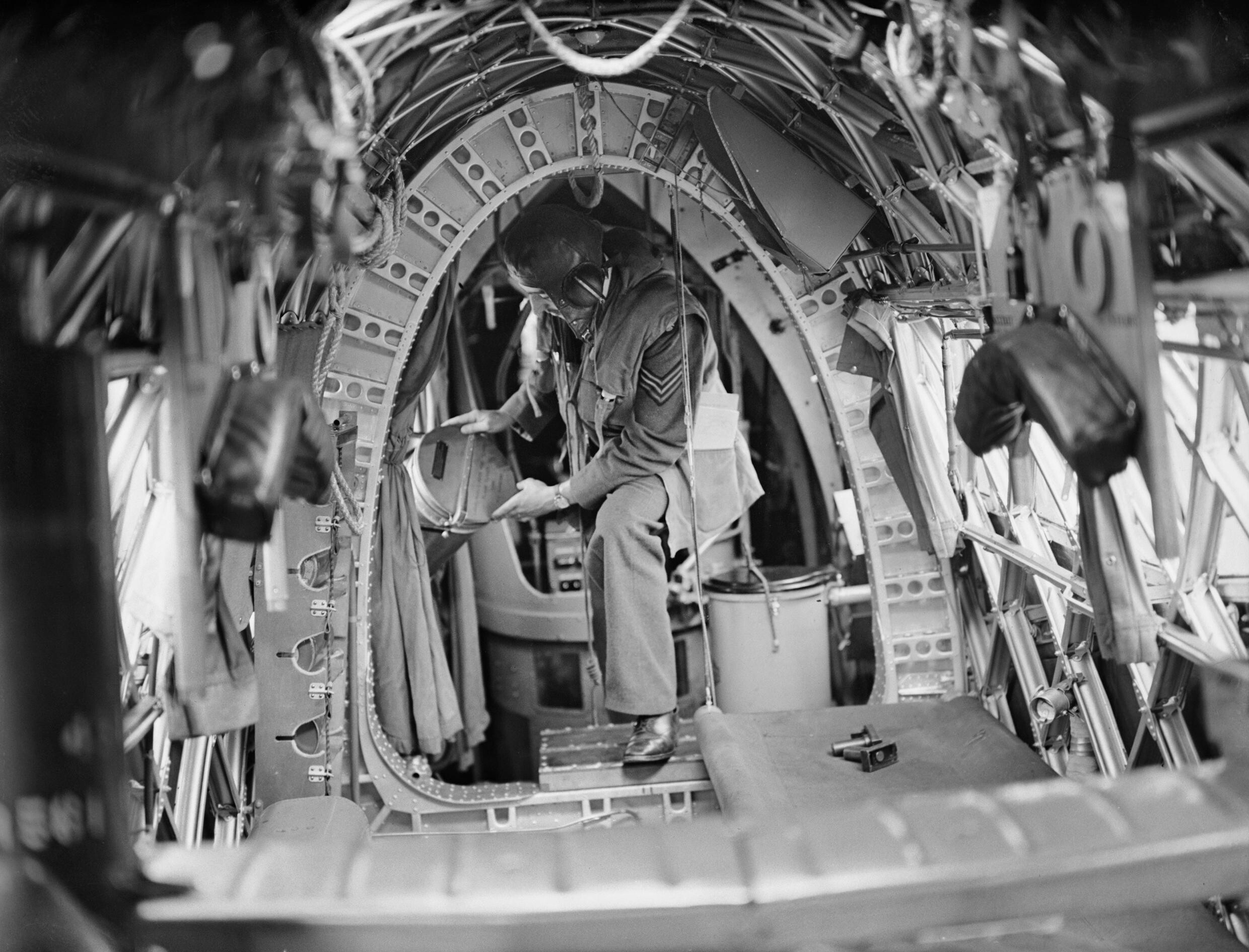 Royal Air Force Bomber Command, 1939-1941. A crew member on board a Vickers Wellington of No. 75 (New Zealand) Squadron RAF places night flares in position in the cramped rear fuselage. Note the Elsan chemical lavatory to the right.